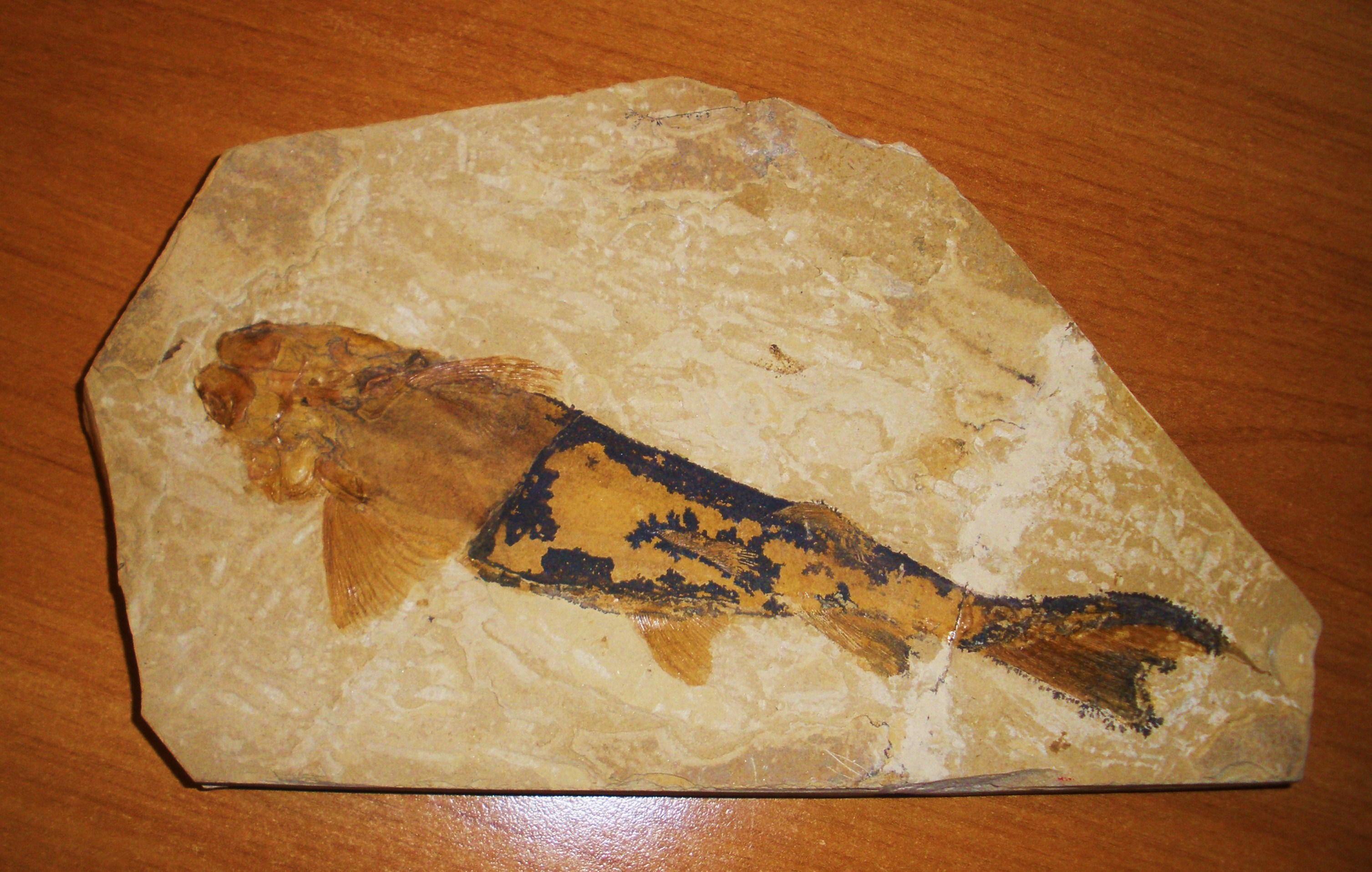 Peipiaosteus pani, an extinct sturgeon relative from the Upper Jurassic of China